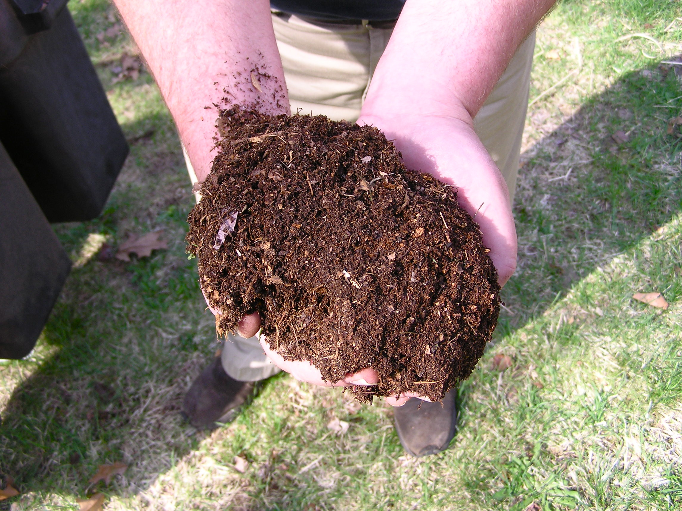 A picture of compost soil